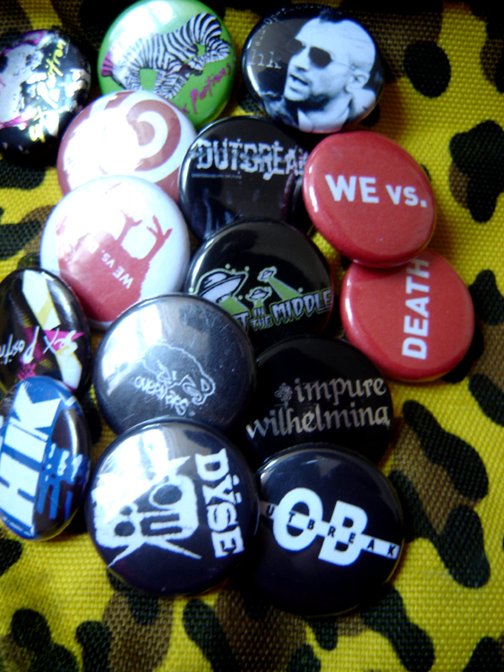 Selection of rock band buttons.